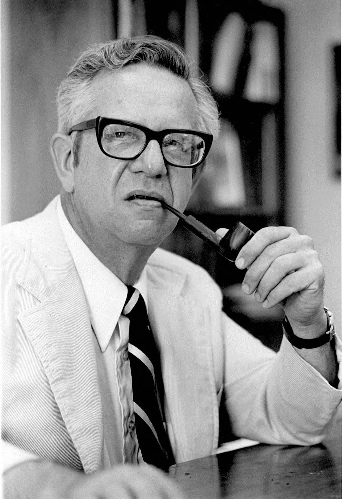 John Hoffman received his B.S. degree in chemistry in 1942 from Franklin Marshall College and his Ph.D. in physical chemistry in 1949 from Princeton University. He participated in the Manhattan Project (1944-1946, while in U. S. Army) and subsequently (1949-1954) was in the R&D branch of General Electric. In 1954, Hoffman joined NBS as a Research Chemist, becoming Chief of the Dielectrics Section in 1957 and Chief of the Polymers Division in 1964. From there, he advanced to Director of the Institute for Materials Research (1967-1978) and then Director of the National Measurement Laboratory (1978-82). Hoffman retired from NBS in 1982, but continued his career as Professor at the University of Maryland (1982-1985), Director and CEO of the Michigan Molecular Institute (1985-1990), and as Research Professor in the Department of Materials Science and Engineering at Johns Hopkins University. Throughout his career, he received numerous awards, including the Soldiers Medal (military decoration, 1946), the U. S. Department of Commerce Gold Medal (1965), the Samuel Wesley Stratton Award of NBS (1967), and election to the National Academy of Engineering (1980). Hoffman passed away on February 21, 2004. This image is part of the MSED Polymers collection.